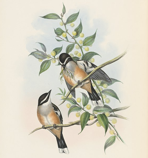 Poecilodryas cerviniventris